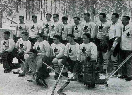 A cigarette card showing the silver medalist Canadian Ice Hockey Team at the IV Olympic Winter Games